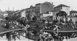 Campo 24 de Agosto, Porto, Portugal - Campo de Mijavelhas